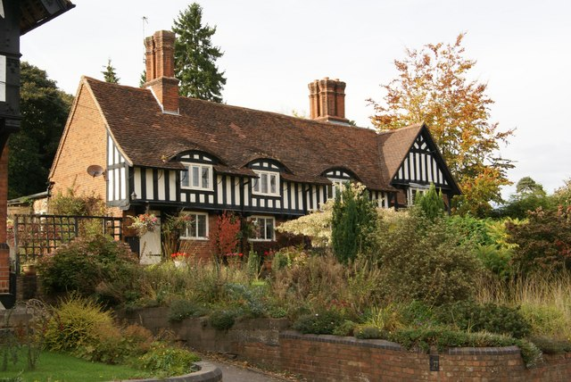 Estate cottages Attractive estate cottages in Hampton-in-Arden.